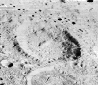 Oblique view of Ramsay crater, on the far side of the moon, facing roughly south.